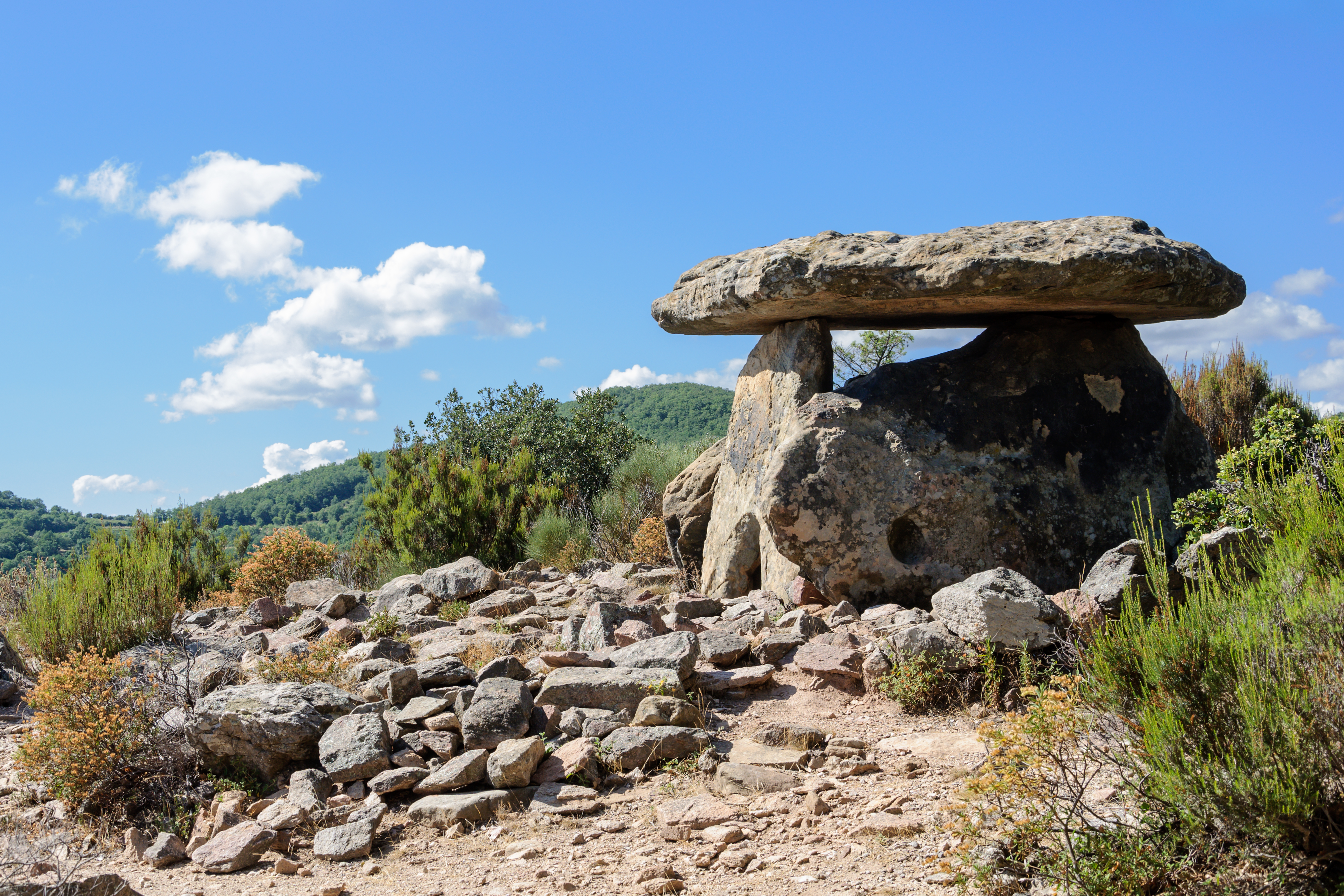 Dolmen de Coste-Rouge, on the estate of Saint-Michel de Grandmont Priory, Soumont, Hérault, France .